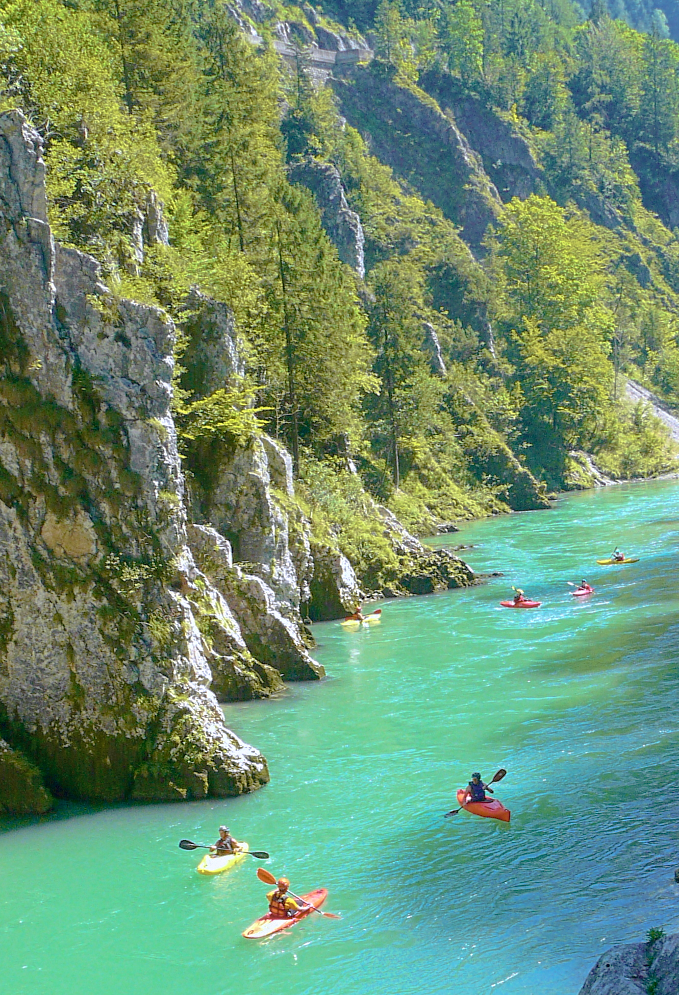 Paddler in ravine "Entenlochklamm" near Klobenstein